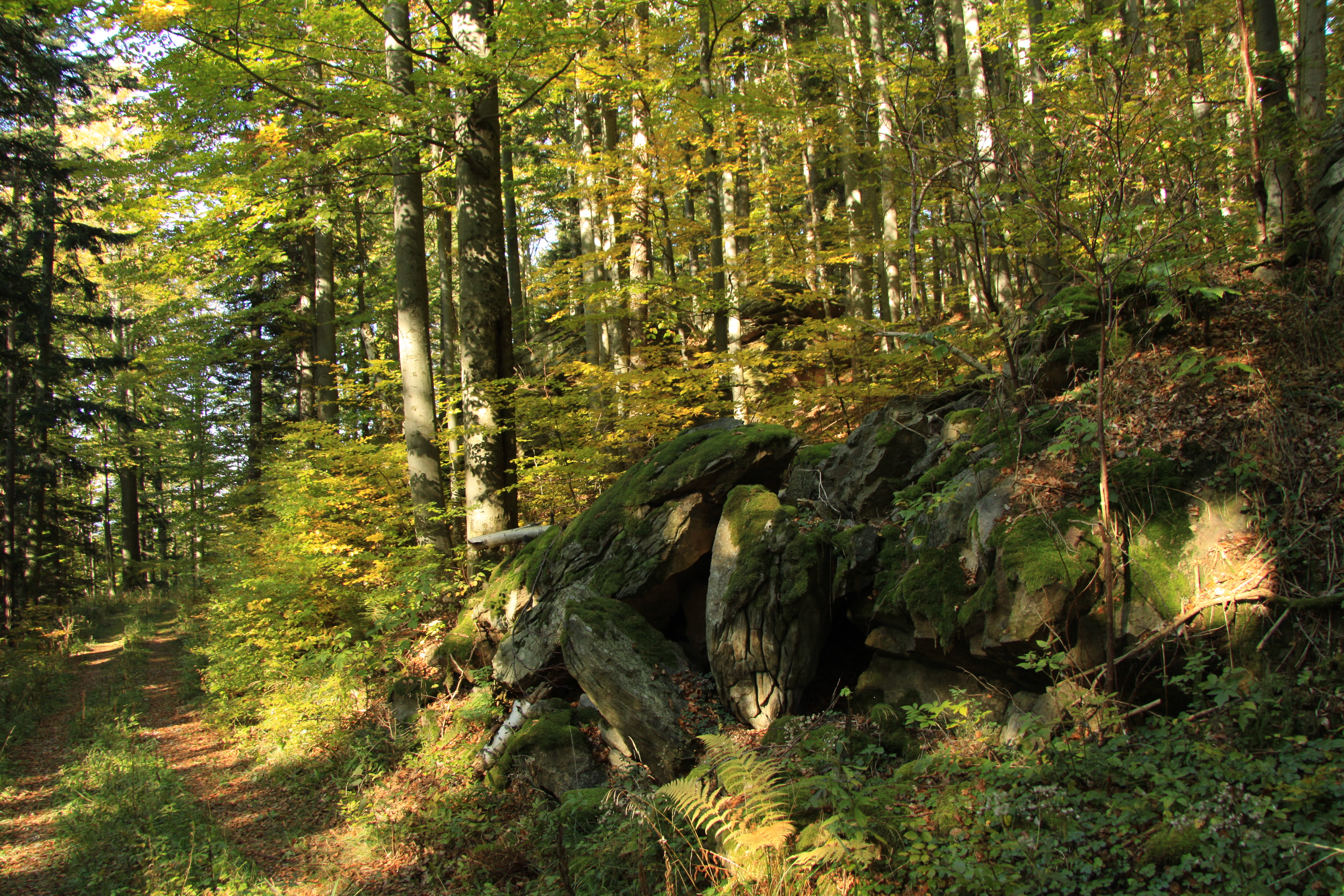 Nature reserve Malá skála near Brloh village in Český Krumlov, Czech Republic Project: Chráněná území.